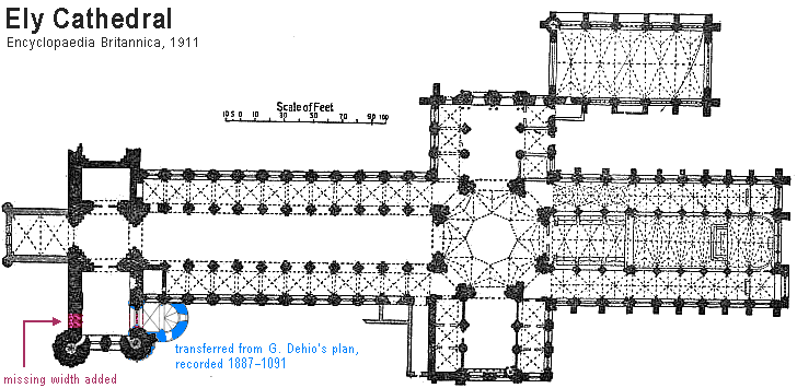 Fig. 4.—Plan of Ely Cathedral from Encyclopædia Britannica 1911 turned by 90° completed using File:ElyPlanDehio.jpg